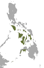 Little Golden-mantled Flying Fox (Pteropus pumilus) range